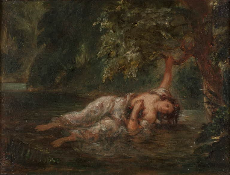 apres William Shakespeare, Hamlet, acte IV, scène 7